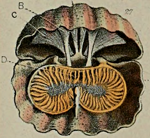 Drawing of the internal of the brachiopode Argyrotheca cuneata, interior of shell. A = cardinal muscle, B = adductor muscle, C = pedicle muscle, D = mouth.